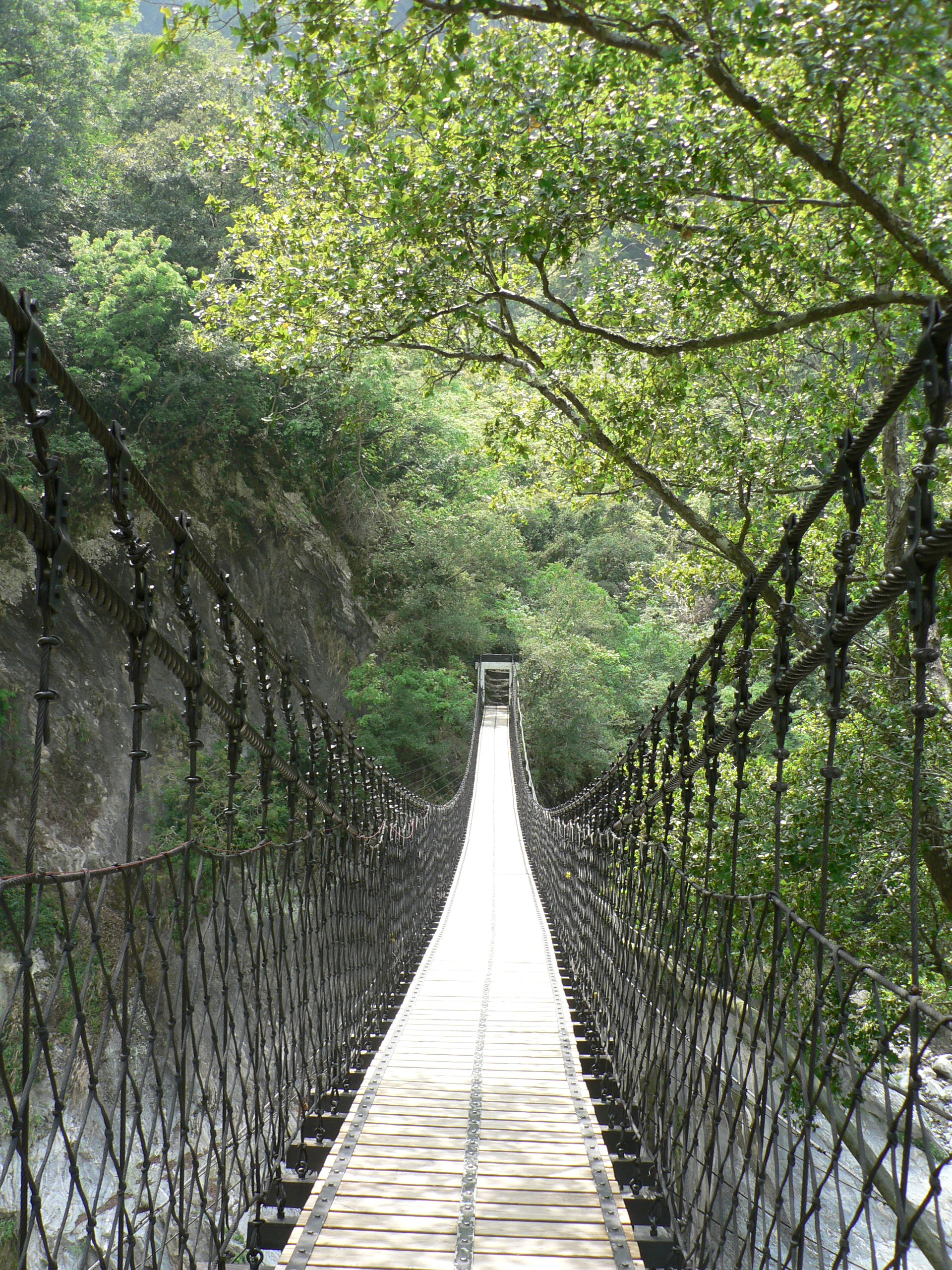 Taroko gorge: simple suspension bridge